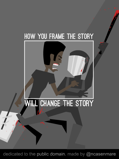 Artistic depiction of different media narratives regarding the 2014 Ferguson unrest by cartoonist Nicky Case.